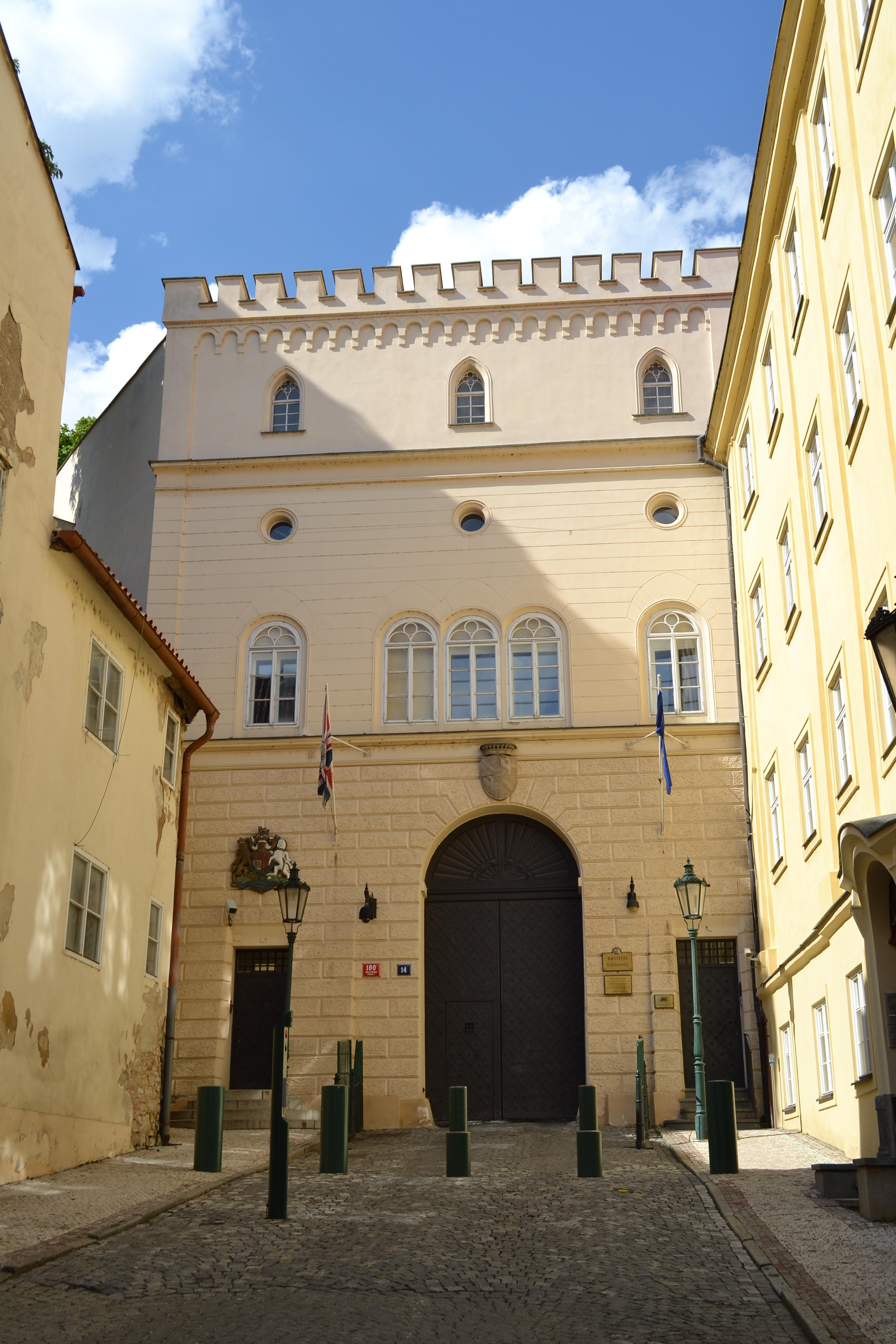 British Embassy in Prague